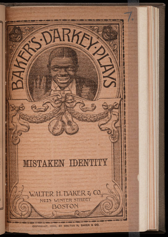 Mistaken identity : an Ethiopian farce in one scene / by George H. Coes. Boston : Walter H. Baker & Co., 1893.